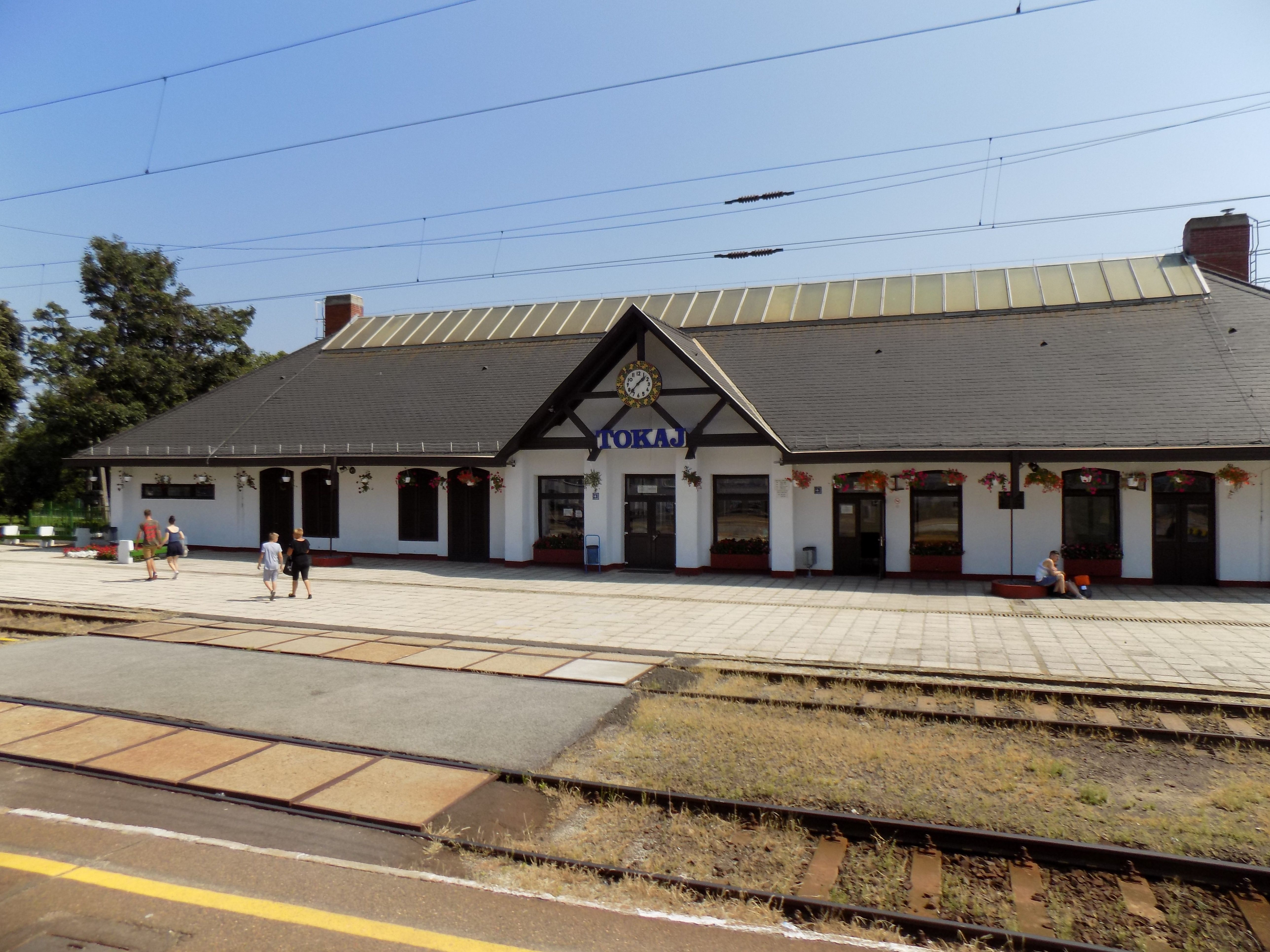 Tokaj railway station